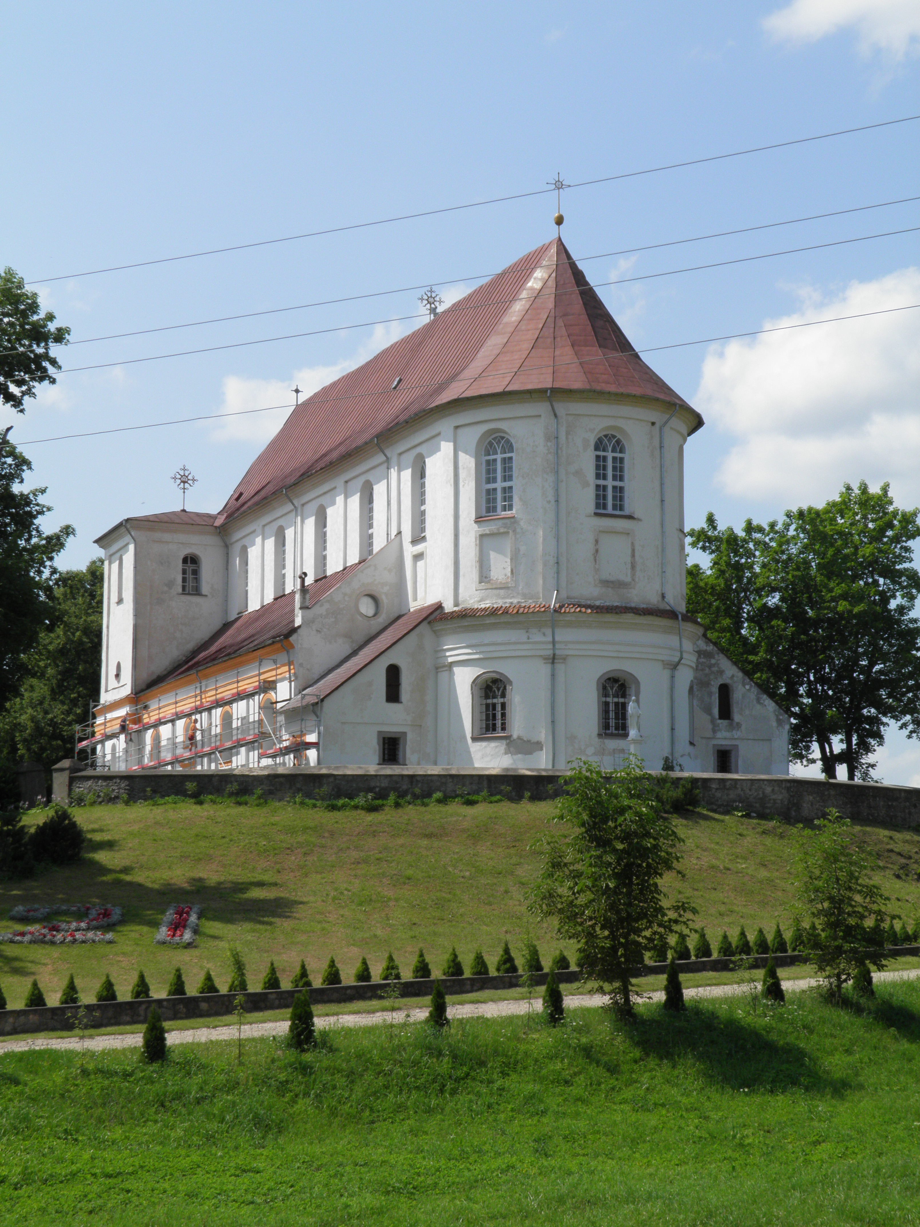 church